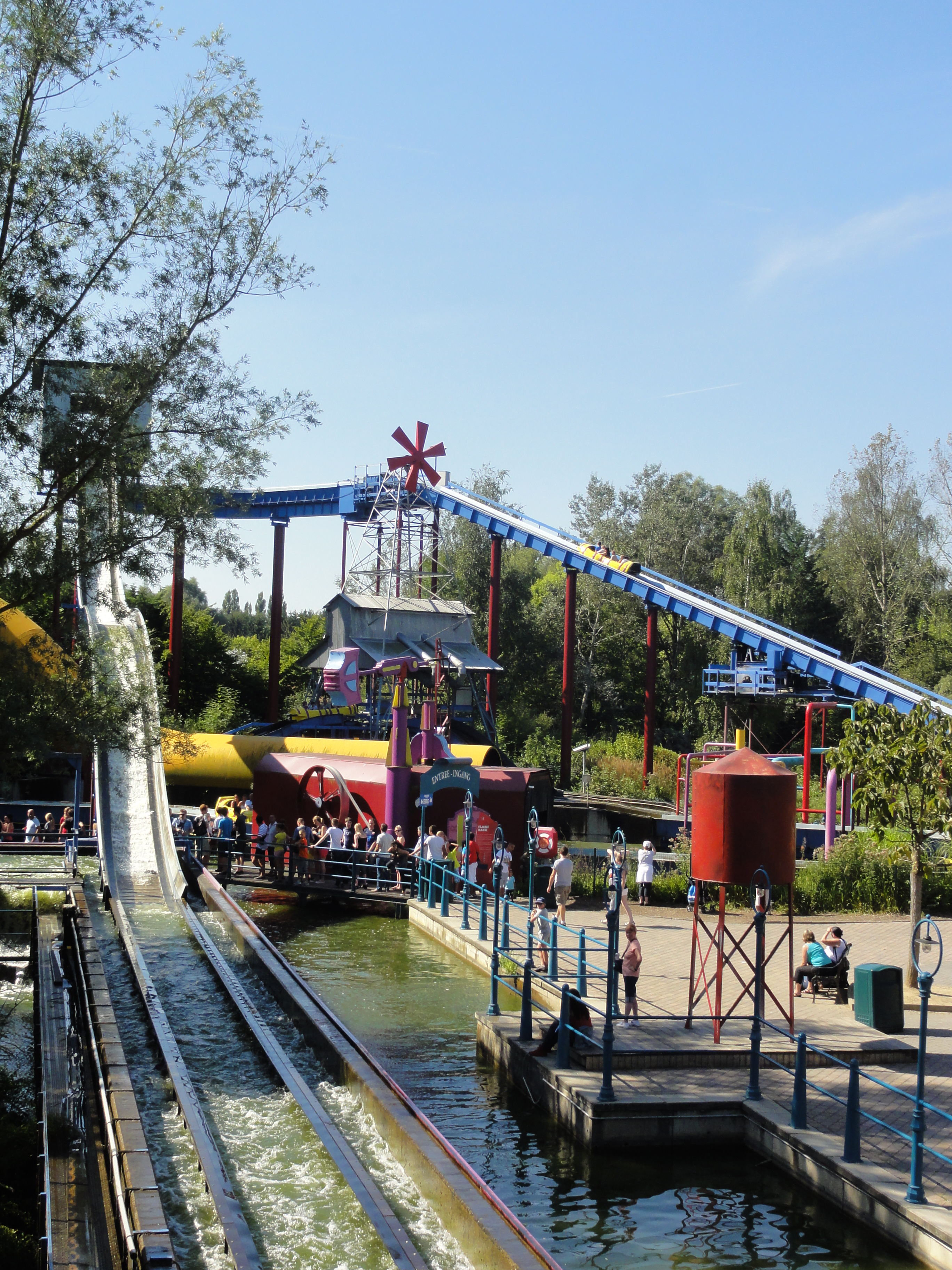 Flash Back, Walibi Belgium, Belgium.